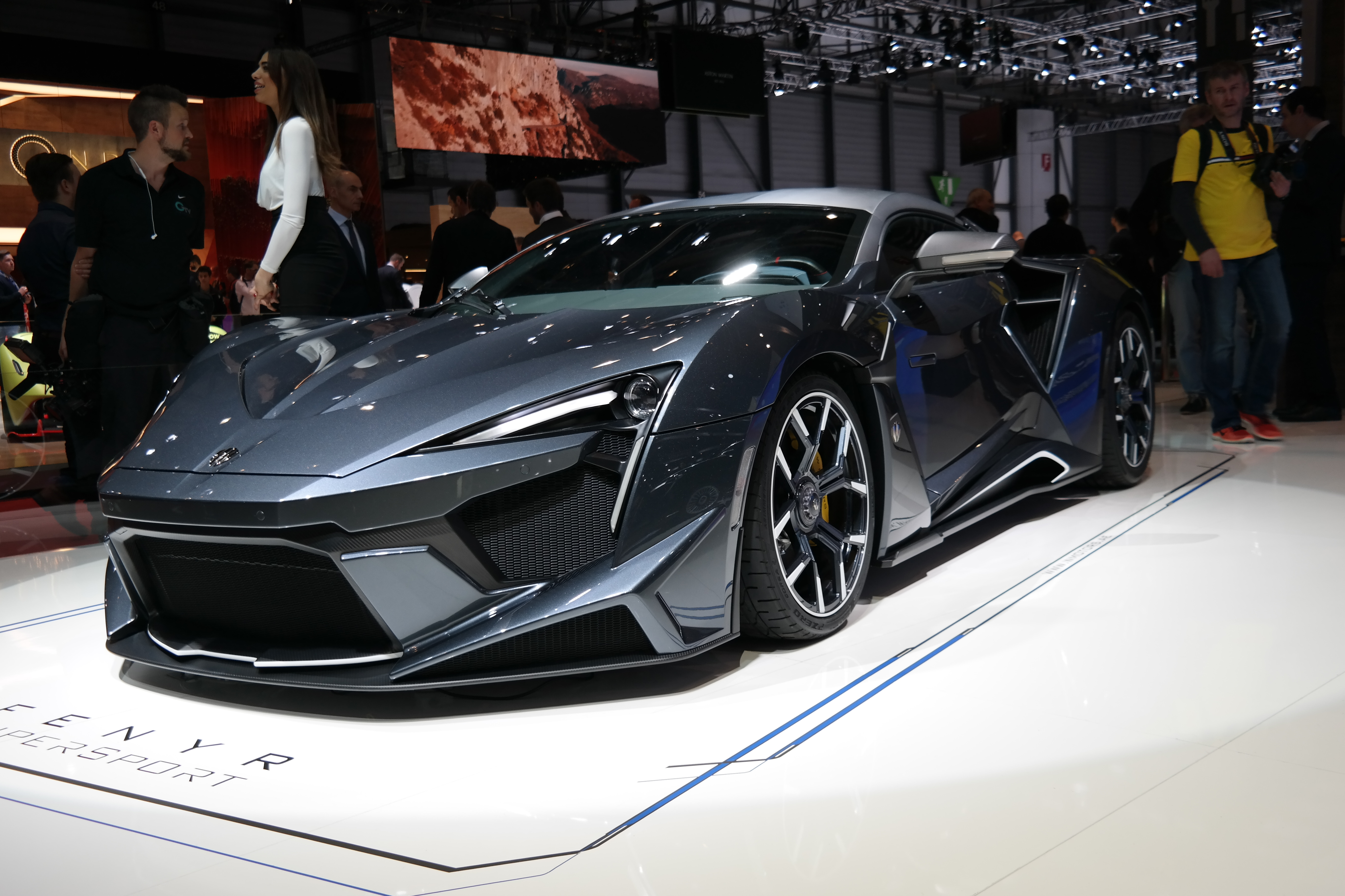 Geneva Motor Show 2018 (photo taken on the first press day)